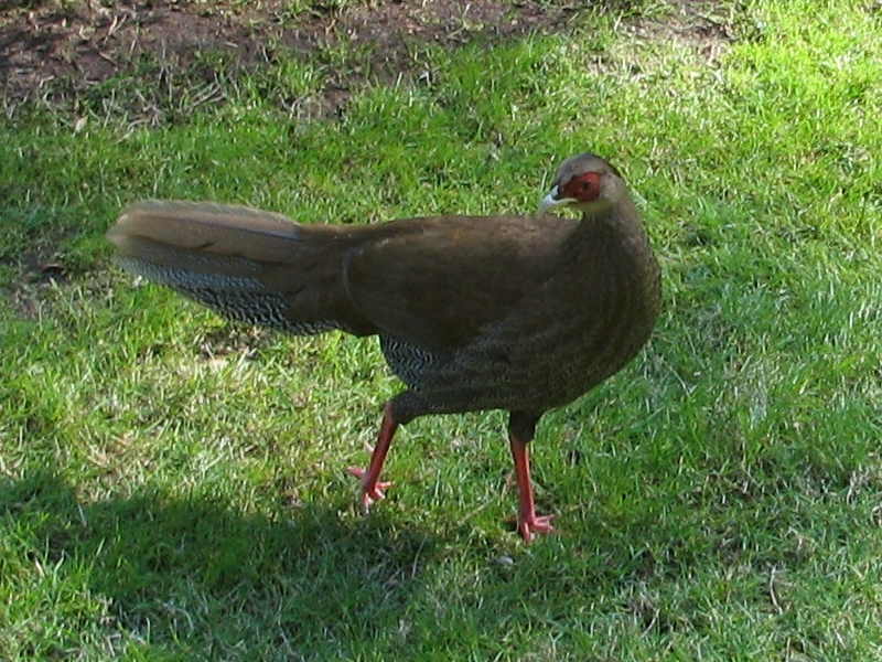 Lophura nycthemera (female)